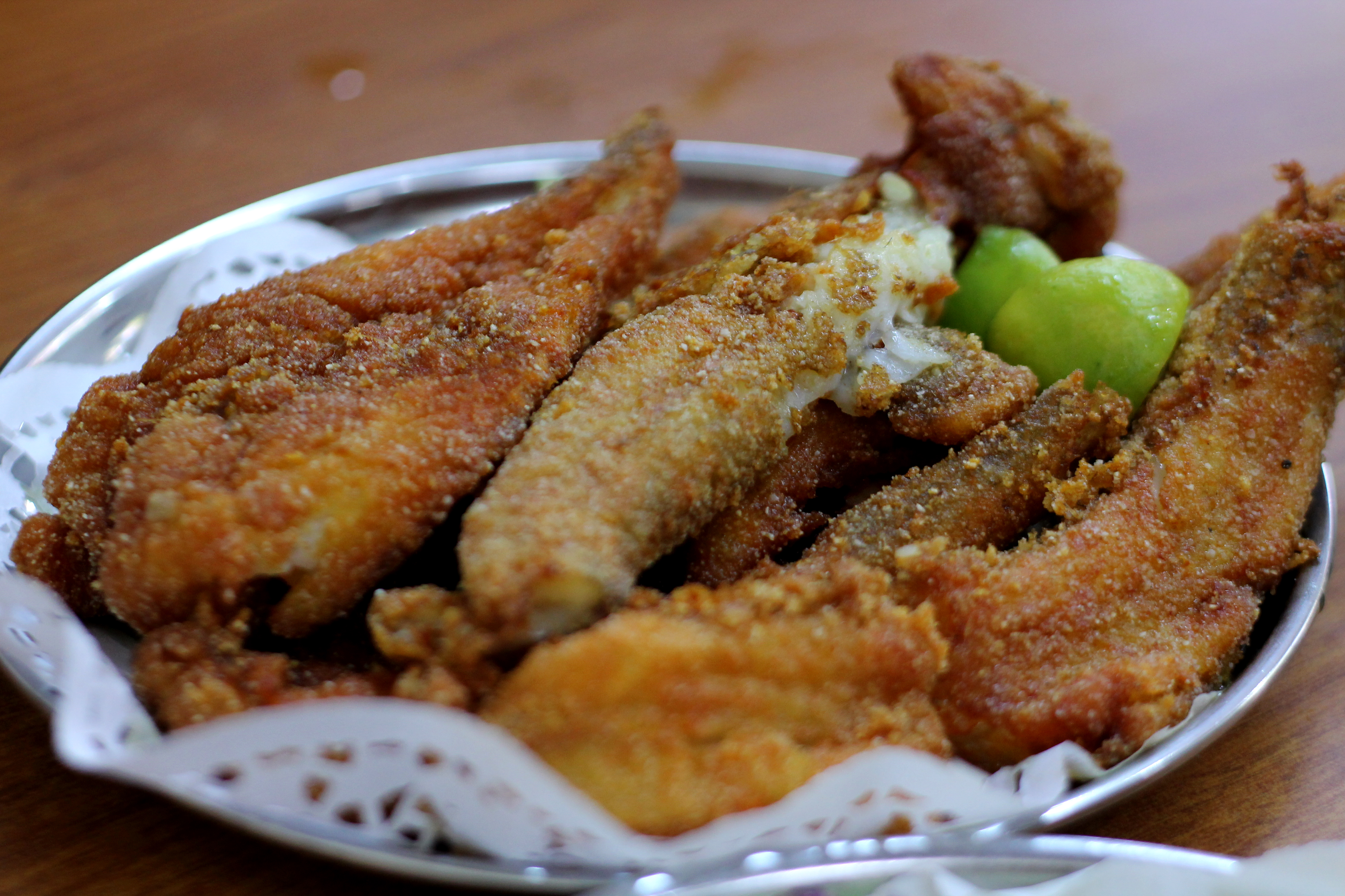 Fish as light as air, battered in rice flour and semolina and deep fried till golden brown, there can't be an entree better than this.